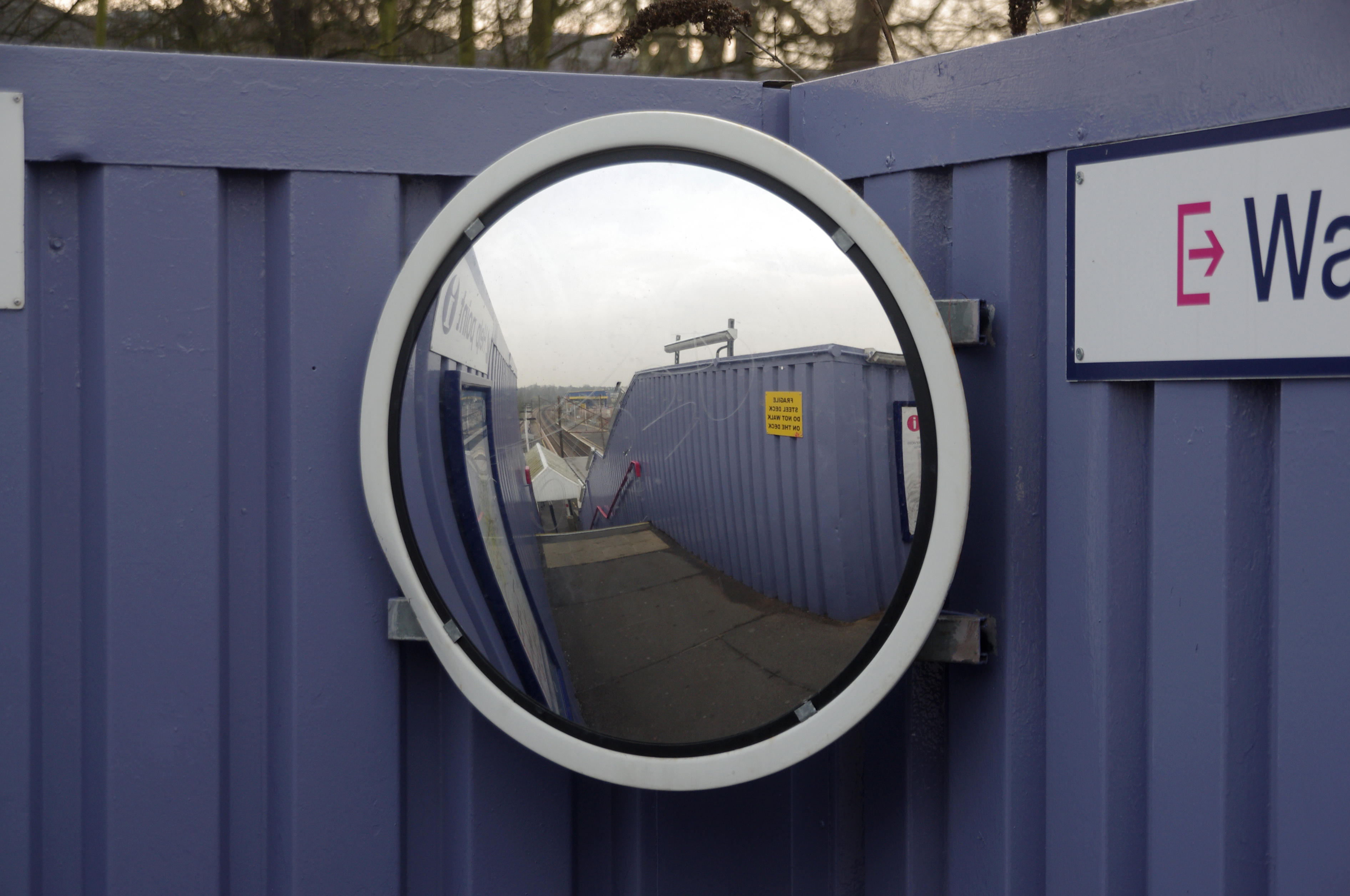 A convex mirror at New Southgate railway station.